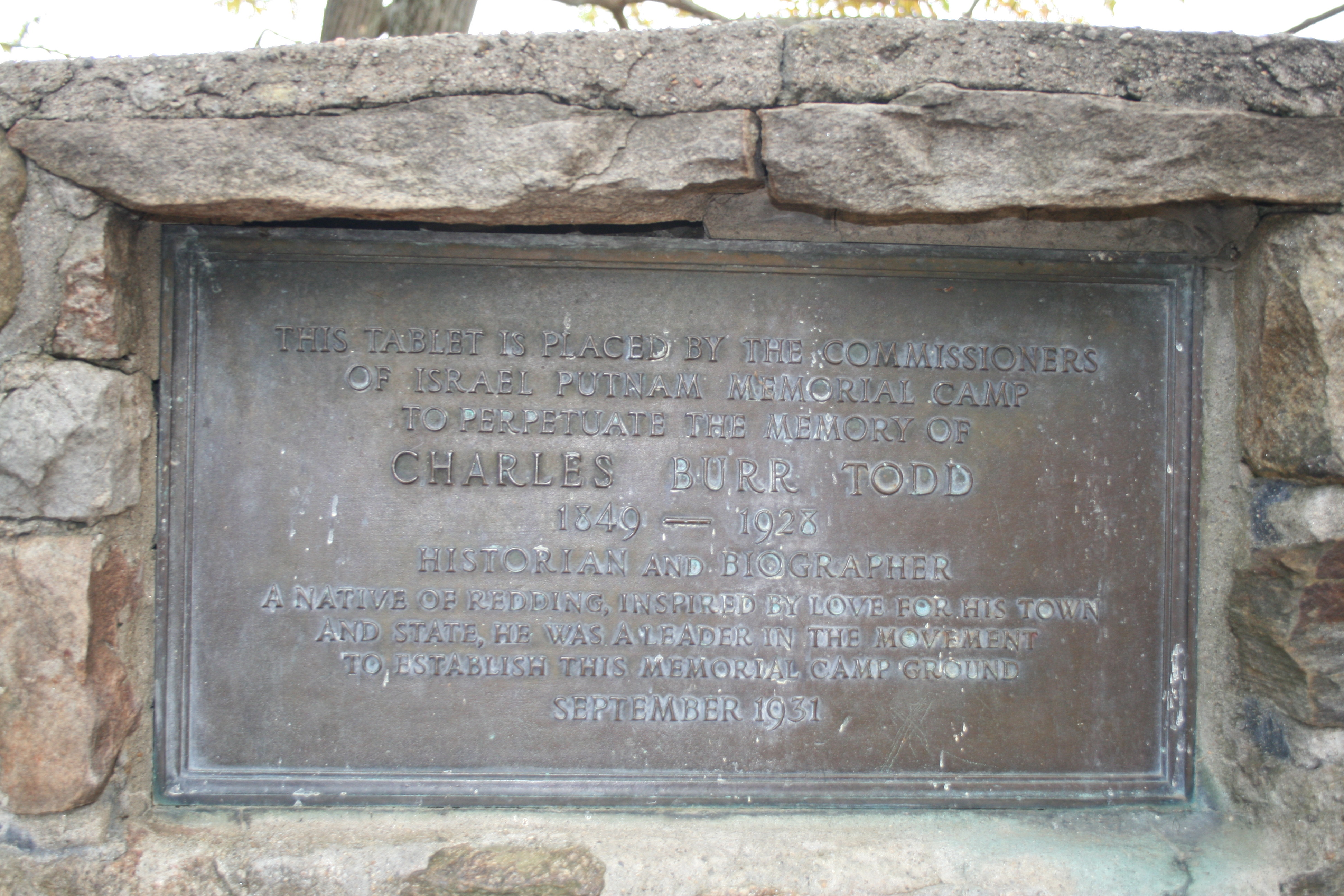 Memorial plaque for Charles Burr Todd, Redding resident and historian who was instrumental in getting Putnam Memorial State Park created